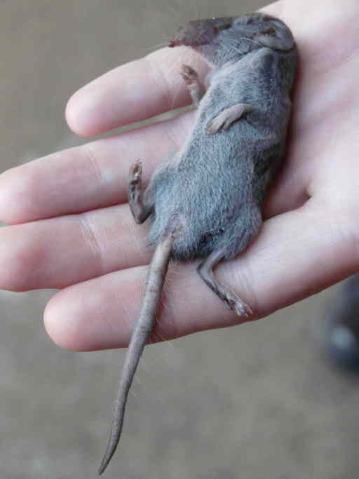 Suncus lixus killed by cat at Dambari Field Station (Matabeleland, Zimbabwe)